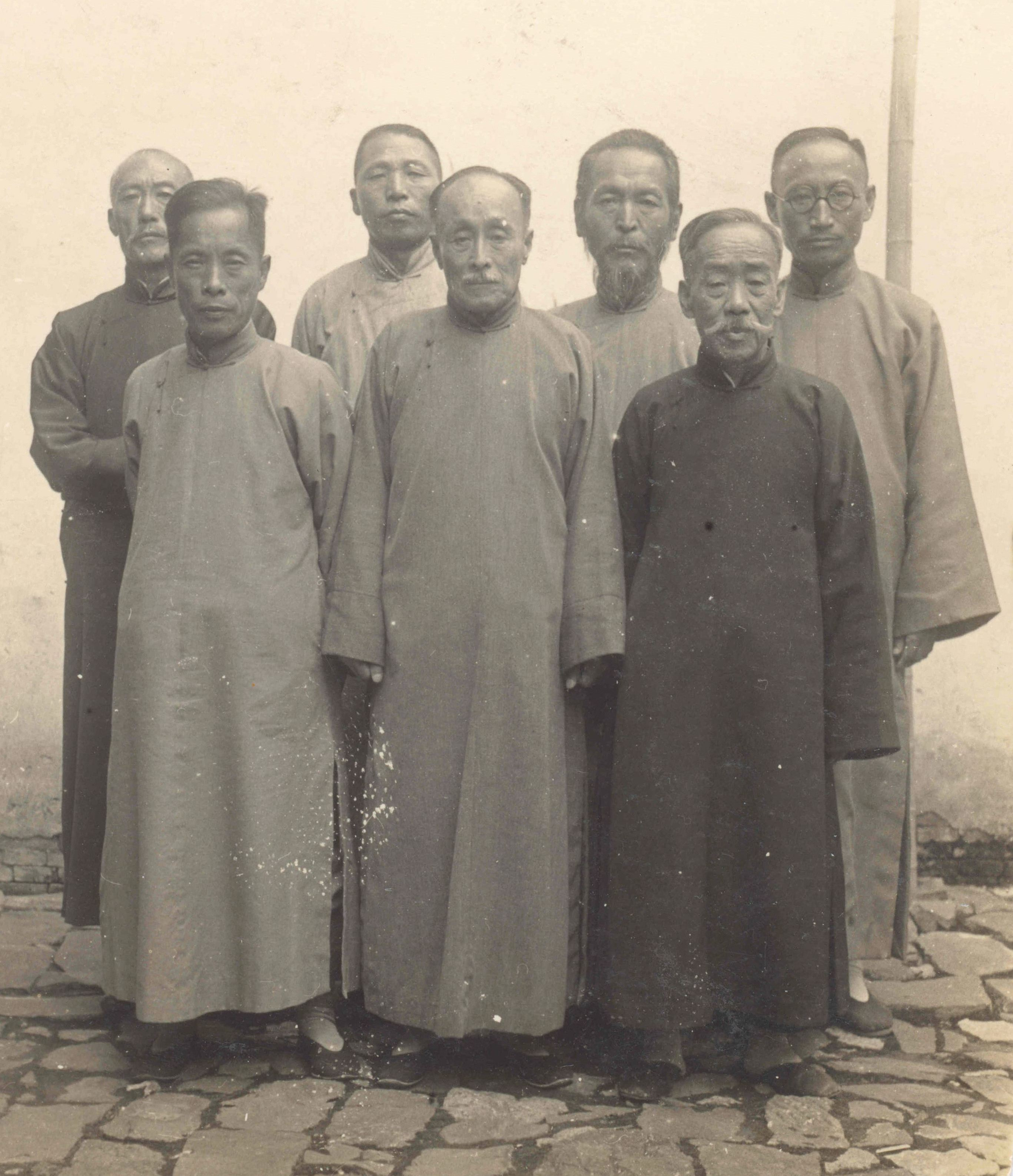 Yi Dong-nyung(center) and other members of Provisional Government of the Republic of Korea